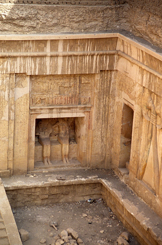 Court of Tomb of Menthemhat, TT 34, statue of the toemb owner and his wife, Asasif, Luxor West Bank, Egypt